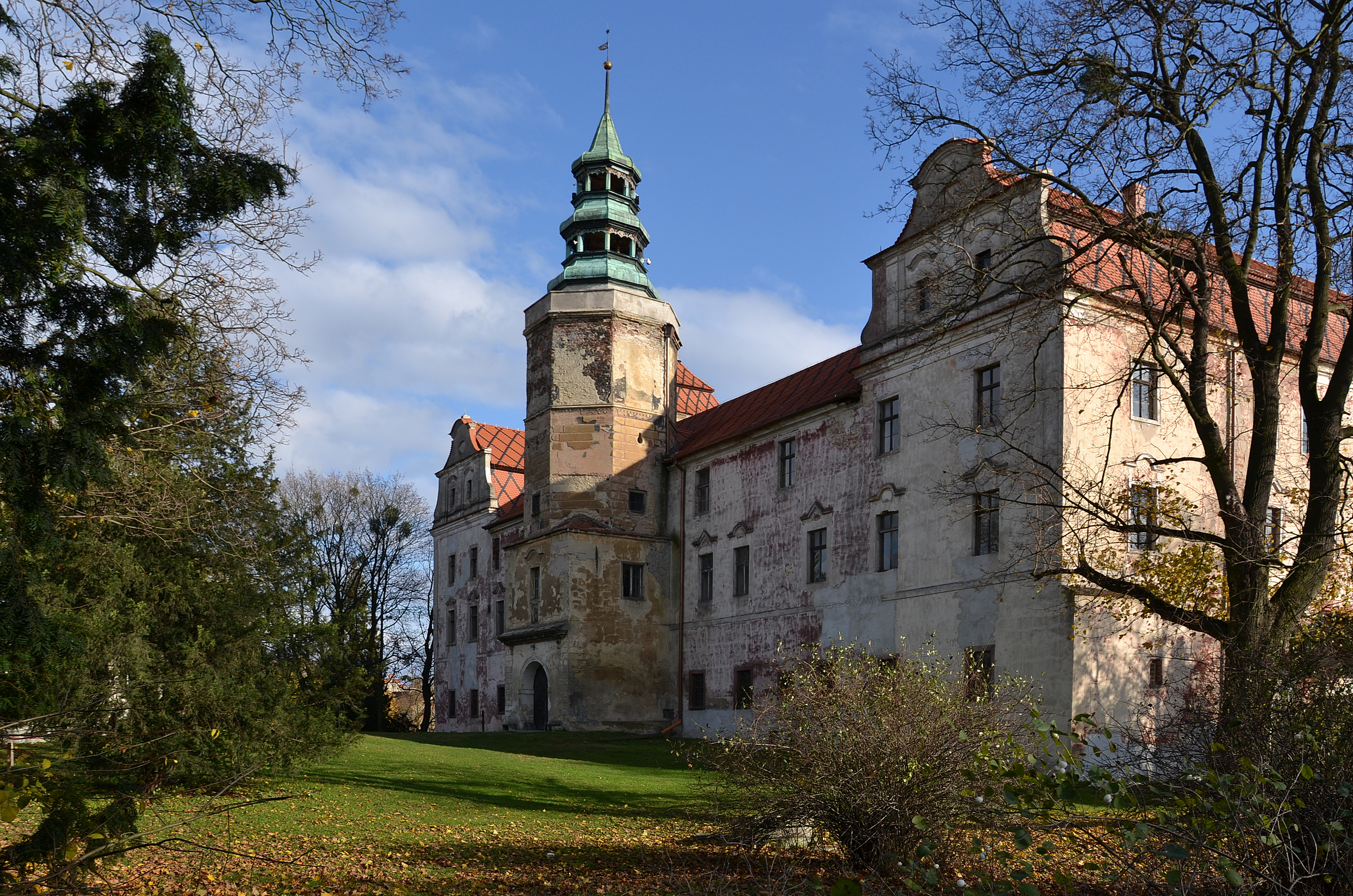 Castle in Niemodlin (Falkenberg), Silesia